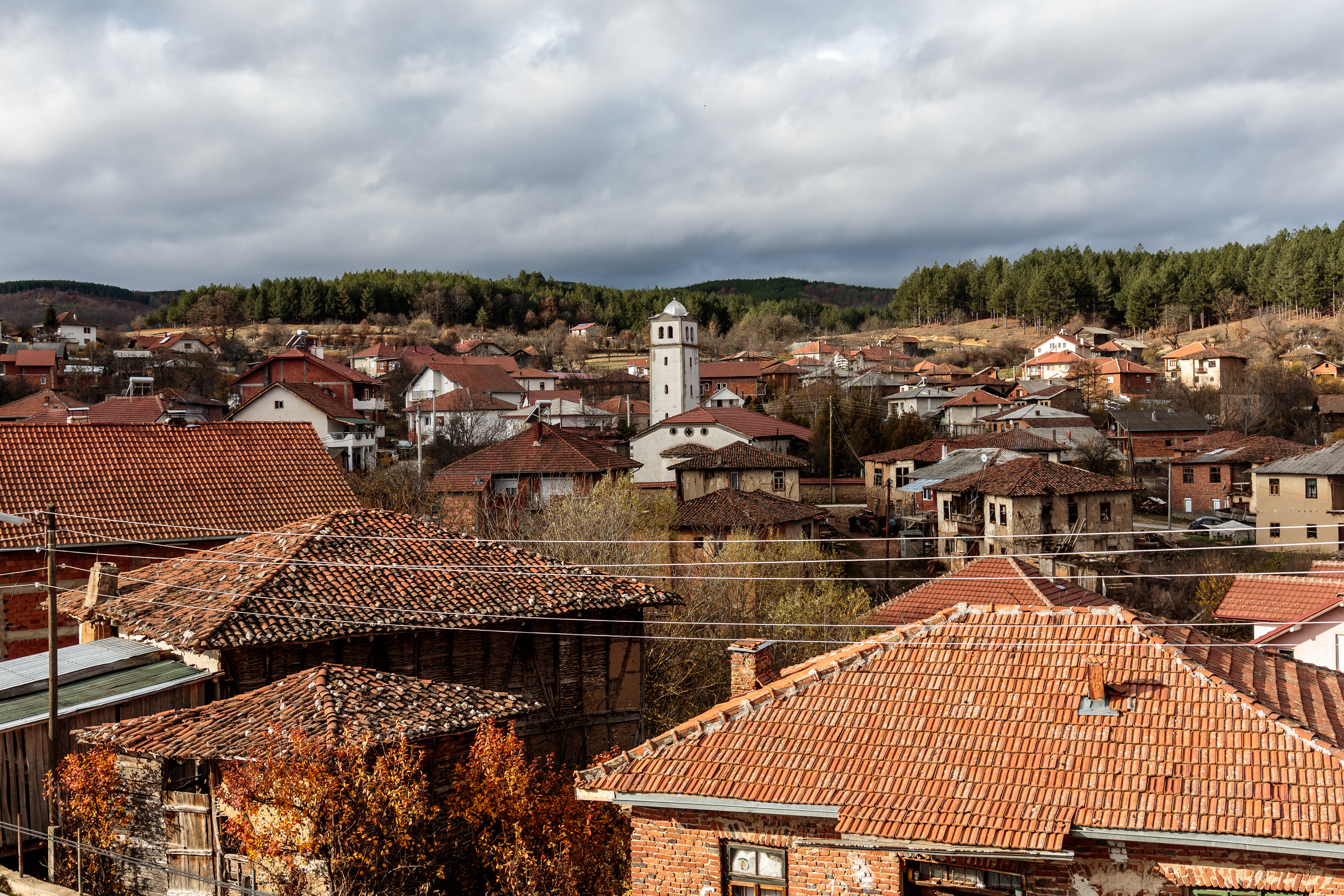 Panoramic view of the village of Mitrašinci, Maleševija, Macedonia